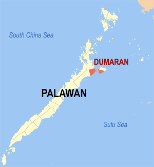 Map of Palawan showing the location of Dumaran